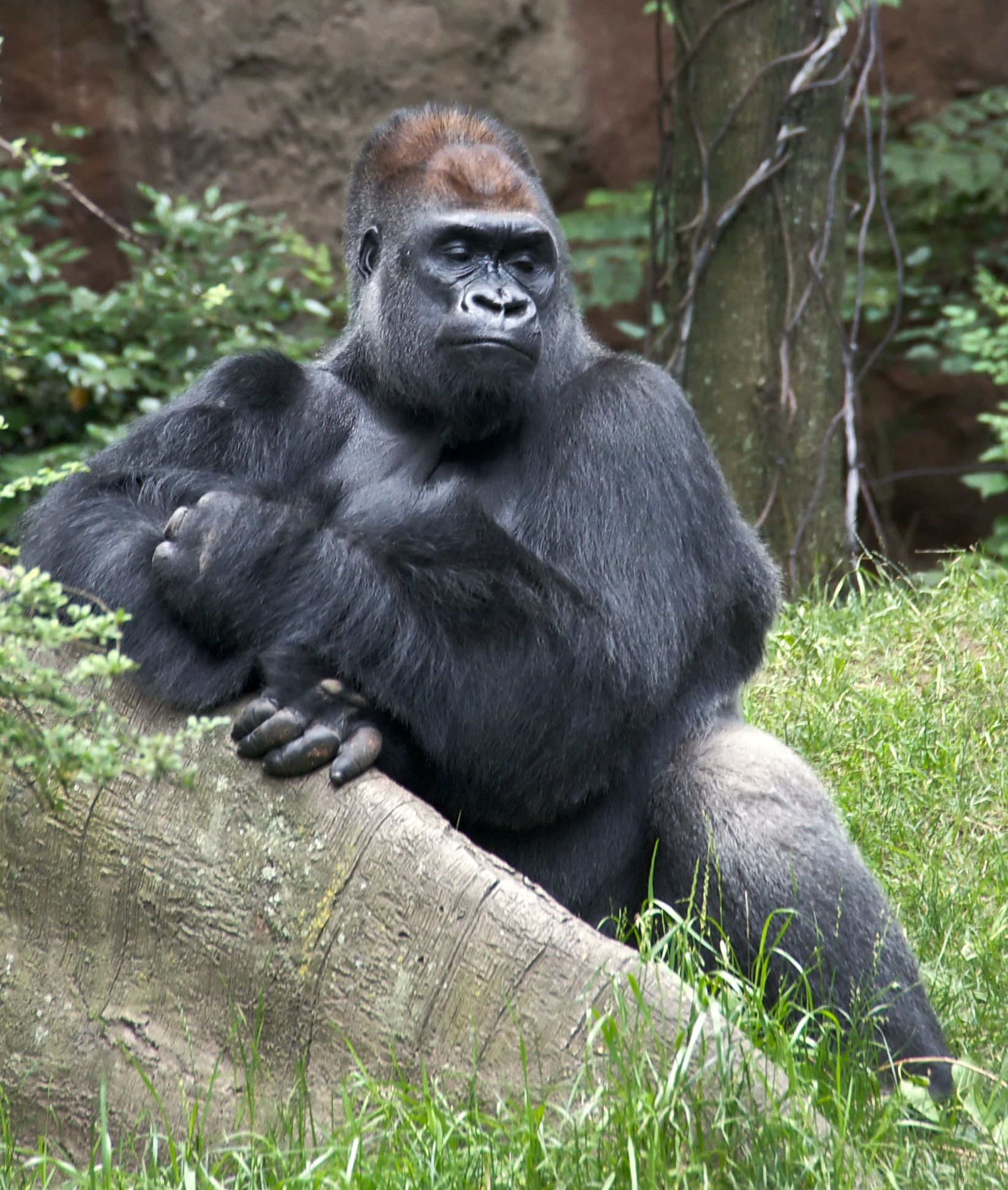 Western Lowland Gorilla at the Bronx Zoo. This is a cropped version of File:Western Lowland Gorilla at Bronx Zoo 2.jpg